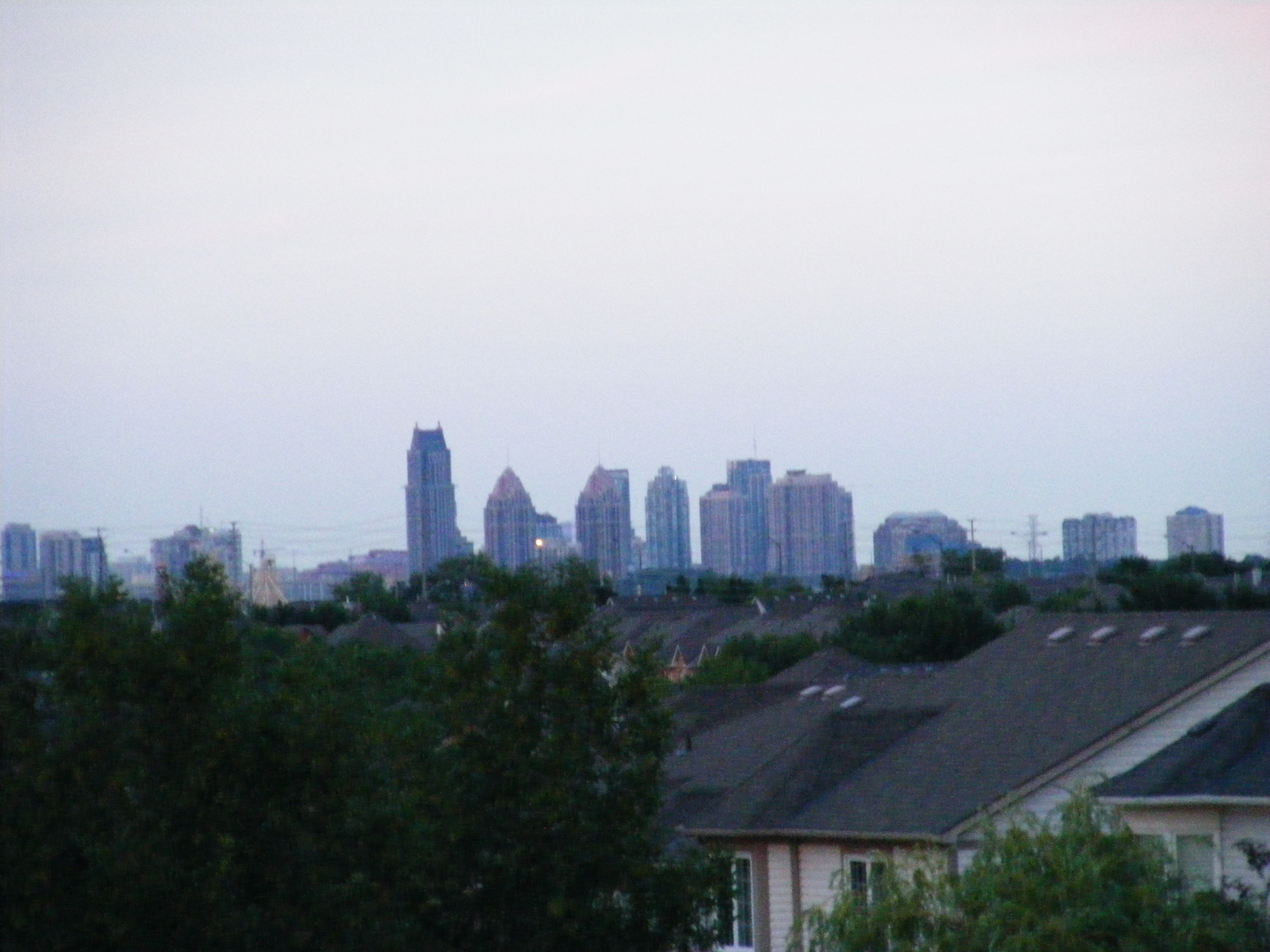 Downtown Mississauga skyline as photographed on Canada Day.